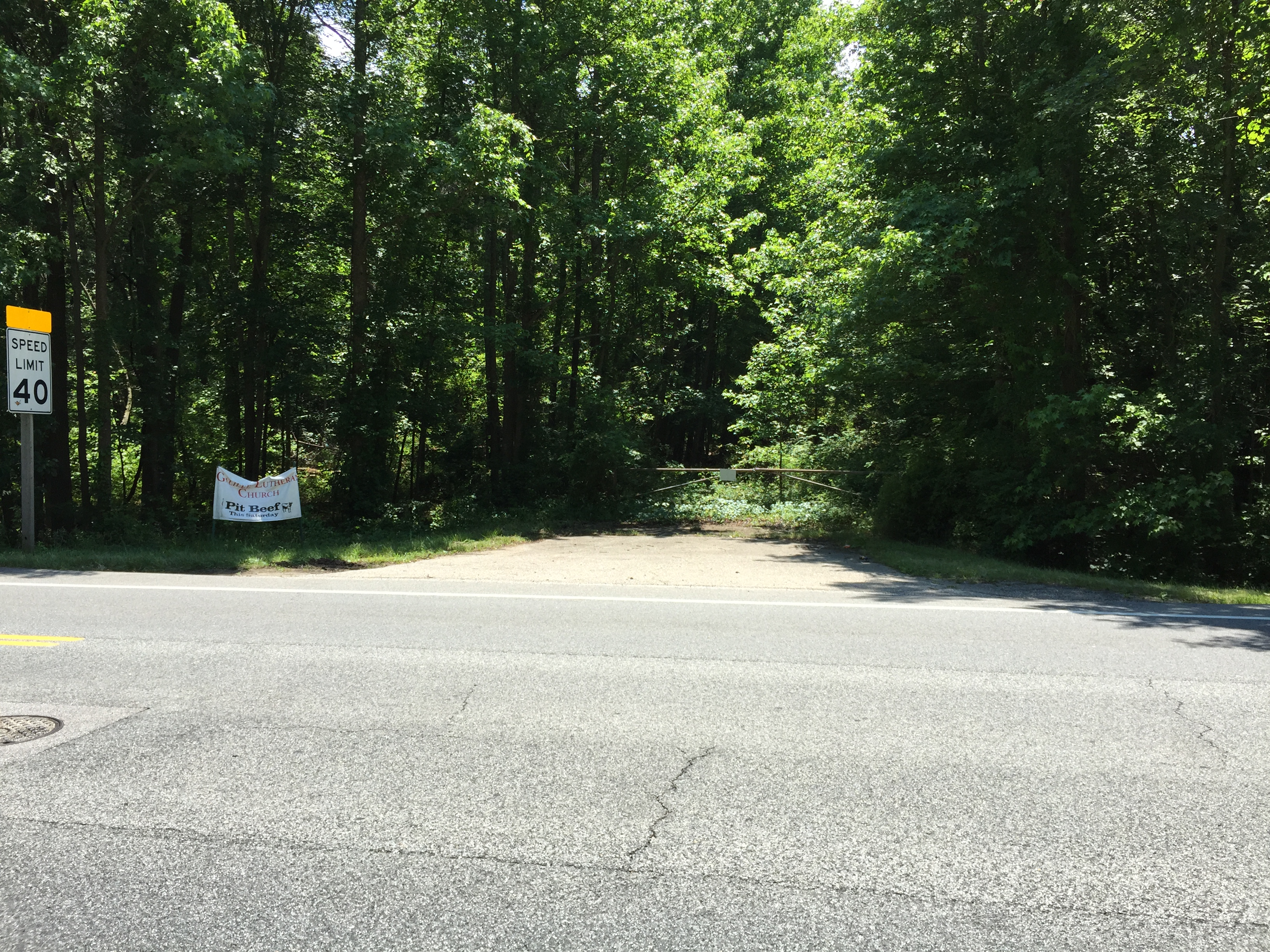 View south along Maryland State Route 990 at Maryland State Route 177 (Mountain Road) in Lake Shore, Anne Arundel County, Maryland